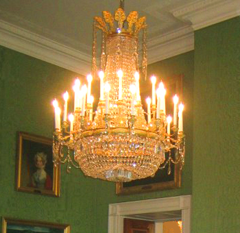 Early nineteenth century French cut-glass and ormolu chandelier in the Green Room of the White House, Washington, D.C.